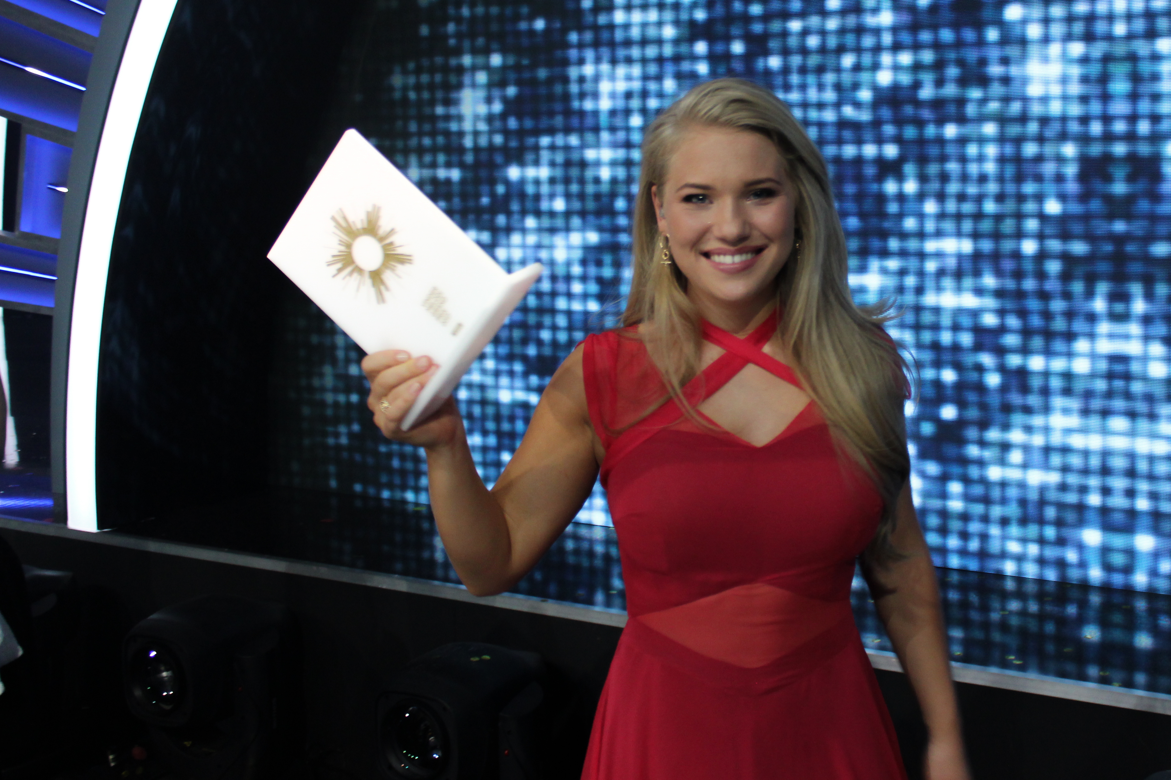 Dansk Melodi Grand Prix 2017 Anja Nissen with her winning trophy